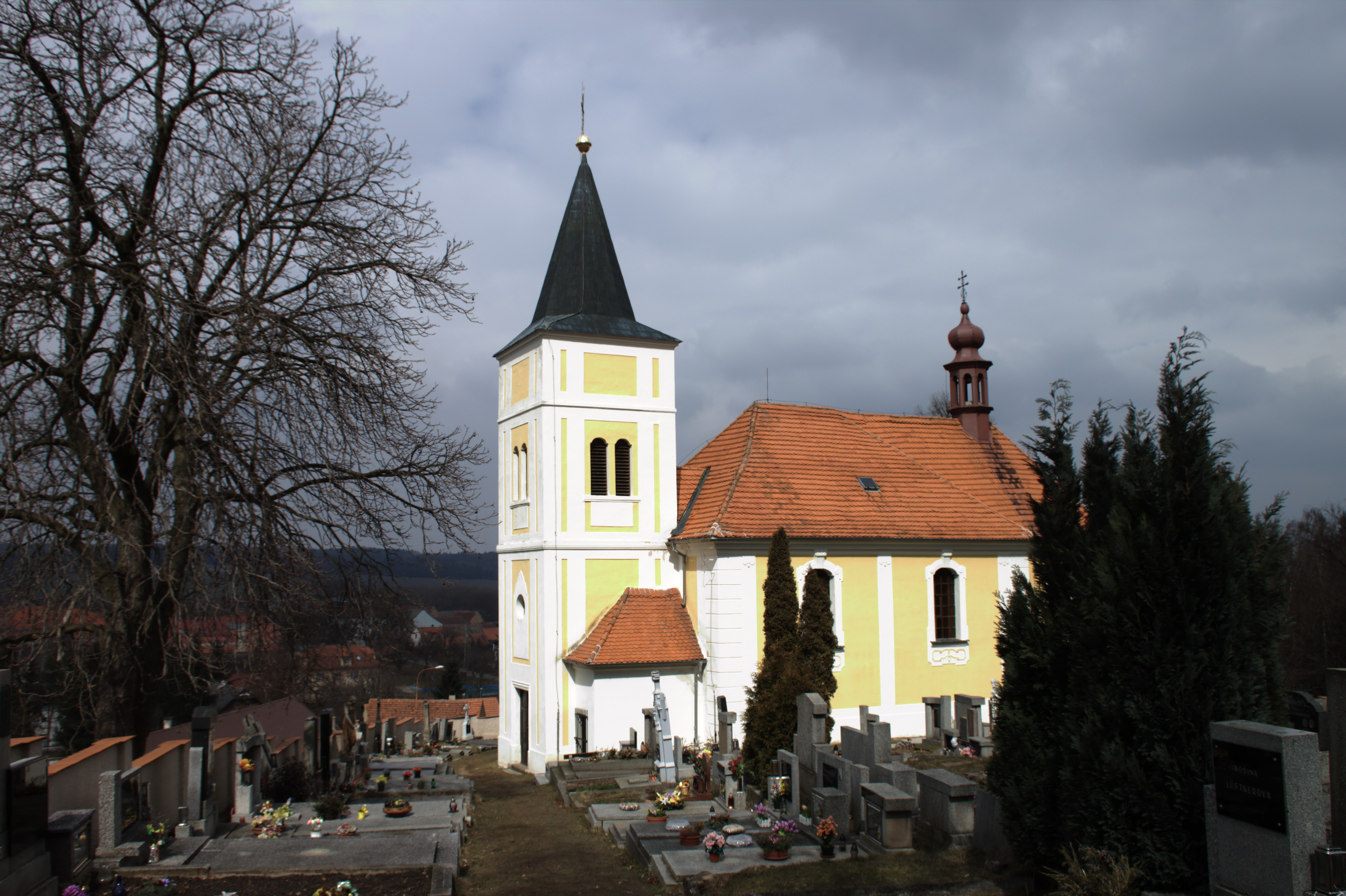 The church in Šanov, Rakovník District